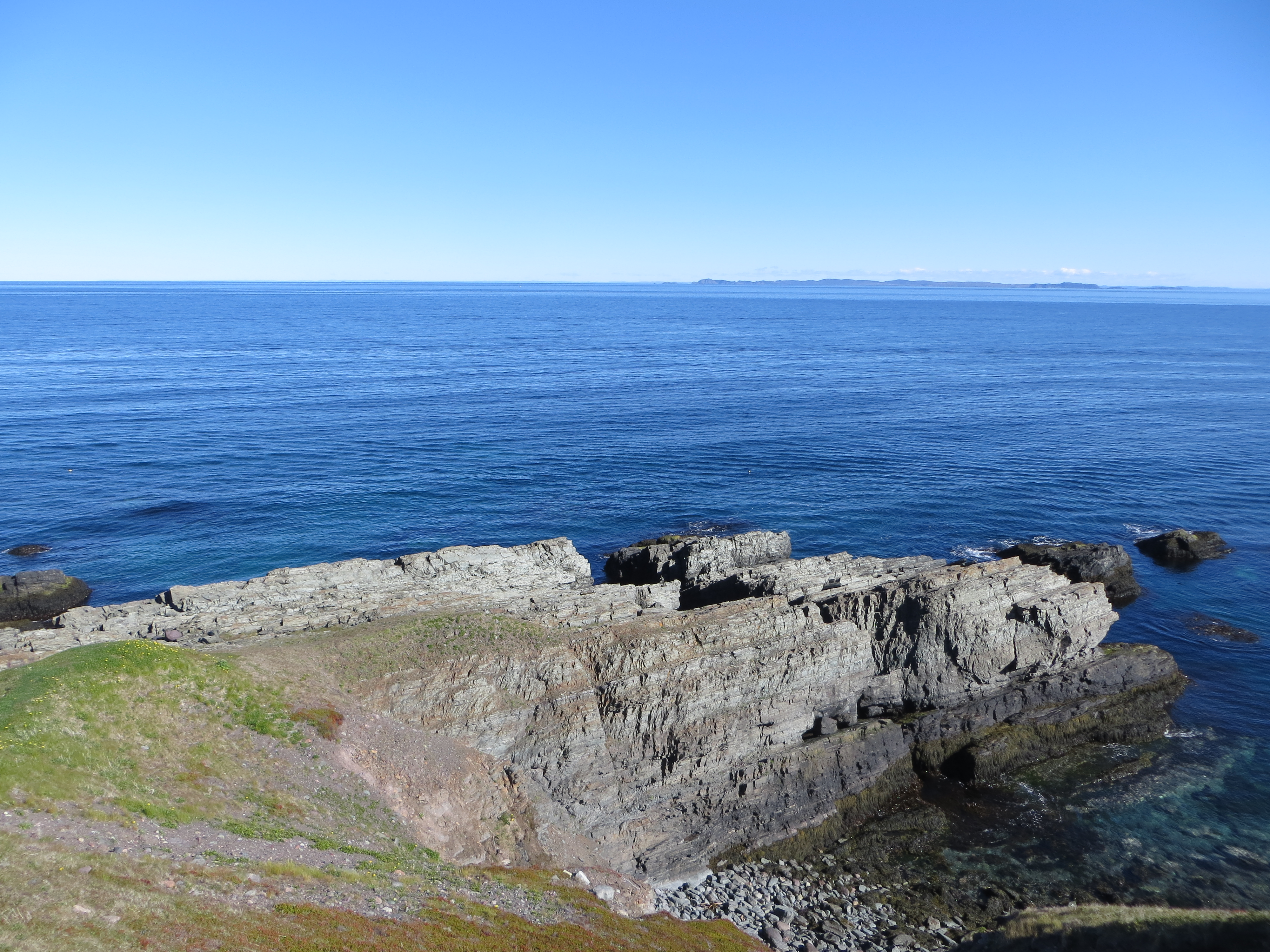 Ediacaran-Cambrian boundary section at Fortune Head, NL, containing the GSSP level, on a rare sunny day